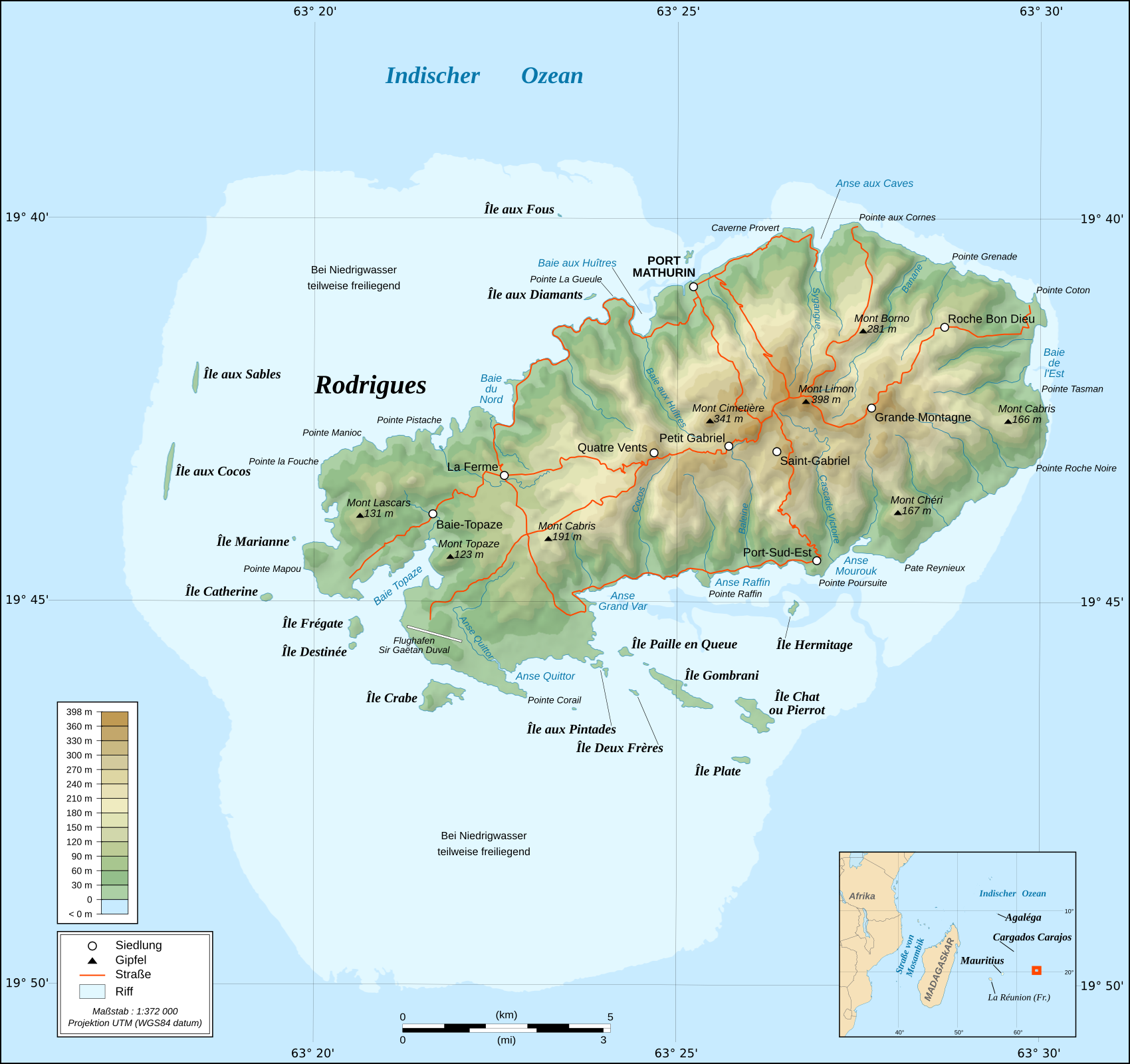 Topographic map in French of Rodrigues Island, Mauritius Scale : 1:372,000 (accuracy : about 93 m) ; Printing size : 7.79 x 7.33 cm ; Note : The background map is a raster image embedded in the SVG file.